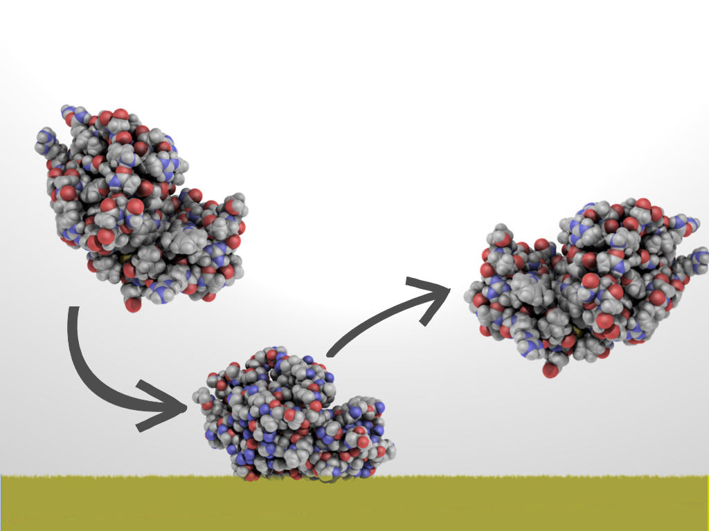 Results of a simulation of lysozyme adsorbing and desorbing from a surface. Simulation was not physical, but gives a general idea of the adsorption process.